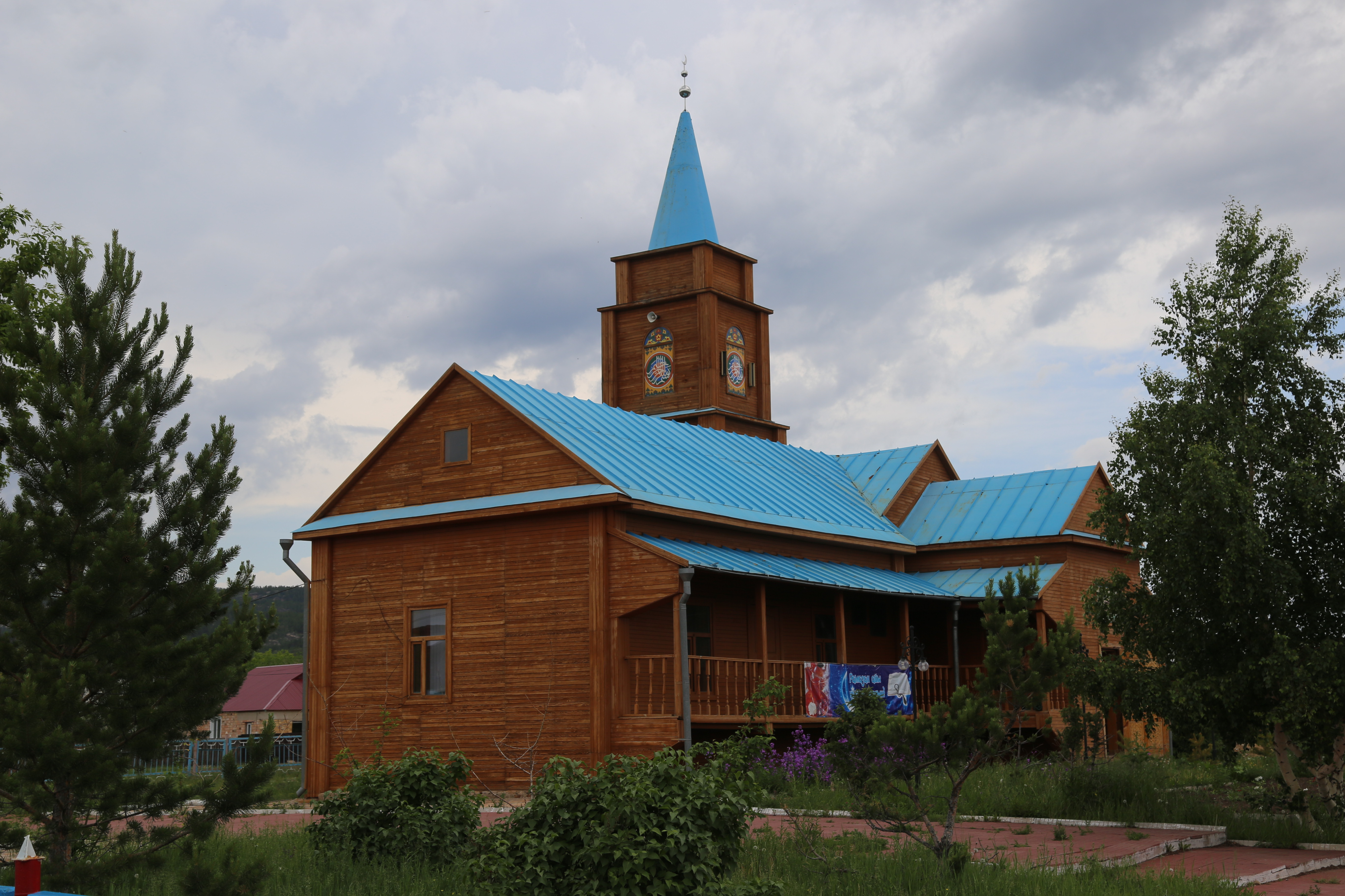 Kunanbay Mosque